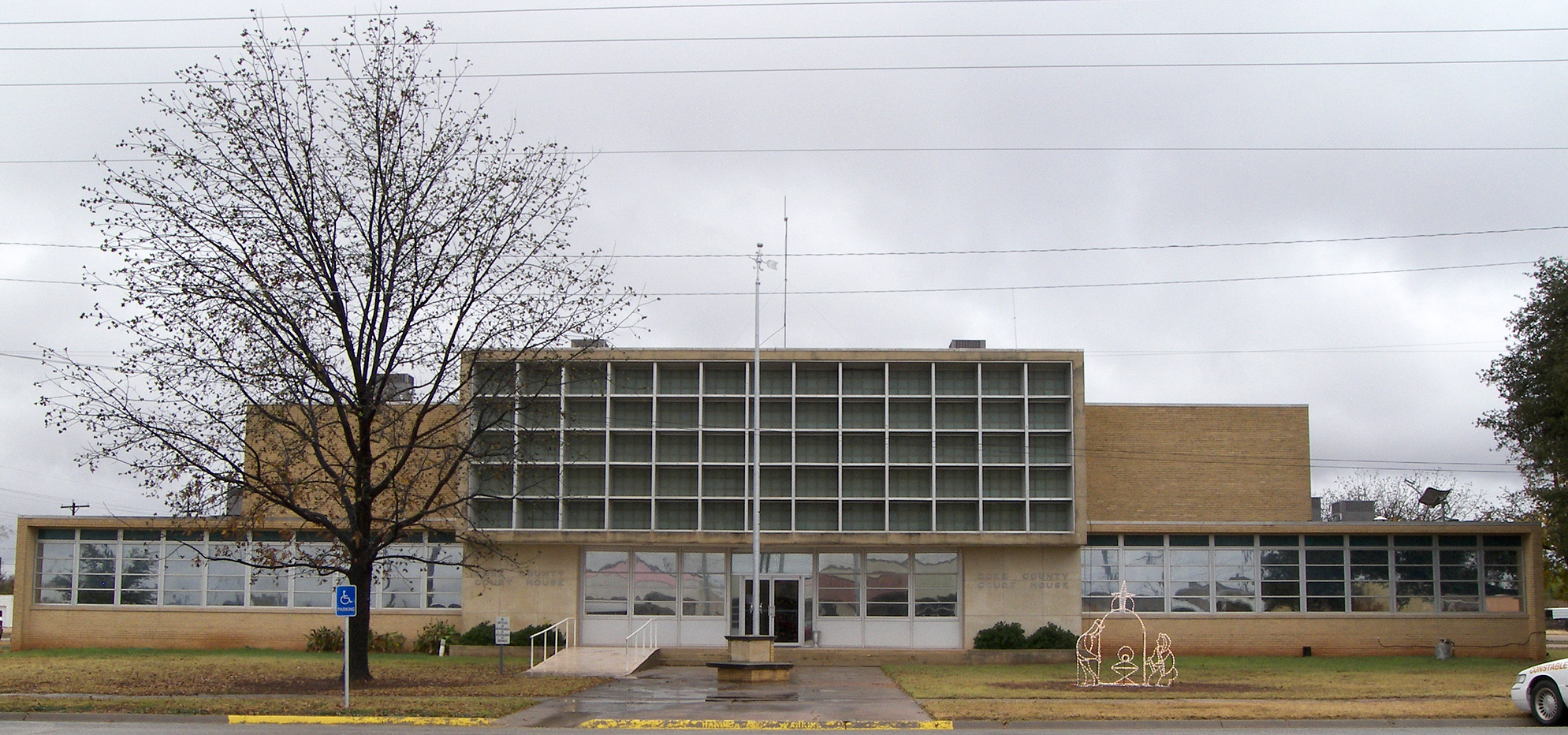 The Coke County Courthouse located at 13 East 7th, Robert Lee, Texas, United States. Architect Wyatt C. Hedrick designed the building which was built in 1956.